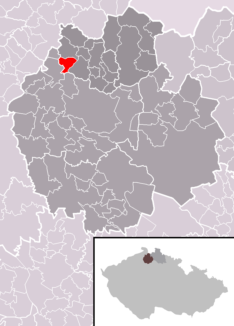 Location of Slunečná municipality within Česká Lípa District and administrative area of Nový Bor as a Municipality with Extended Competence.